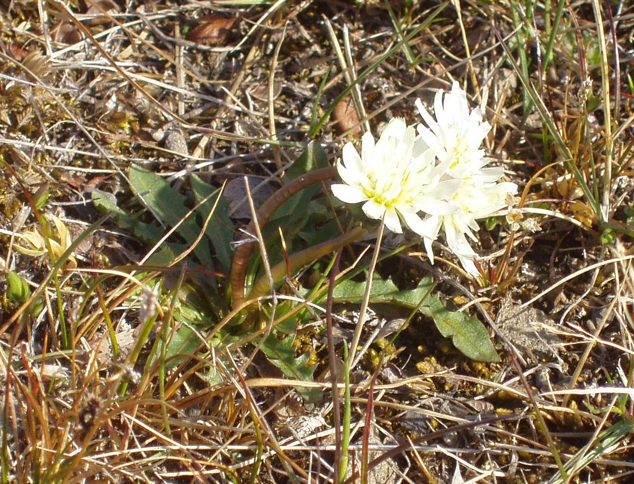 Polar Dandelion Longyearbyen, Svalbard